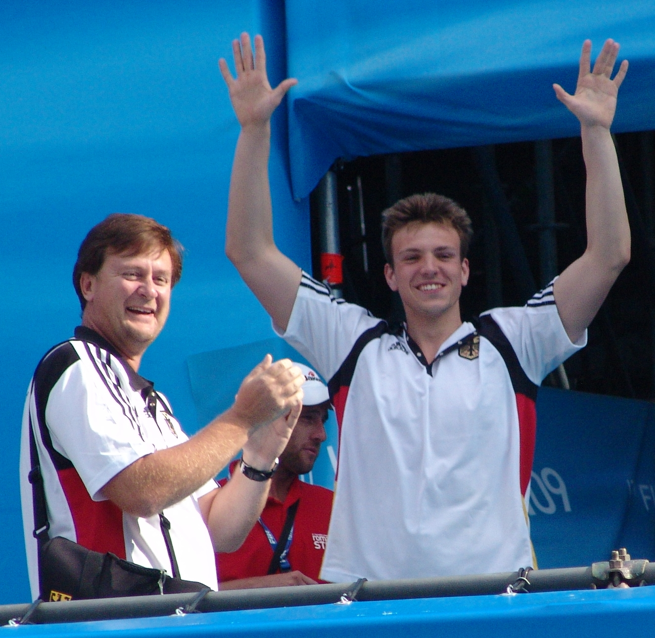 Frank Embacher (left) is the coach of Paul Biedermann (both from Germany). Picture take at FINA World Championships 2009 in Rome where Paul Biedermann won twice gold (200 and 400 freestyle).